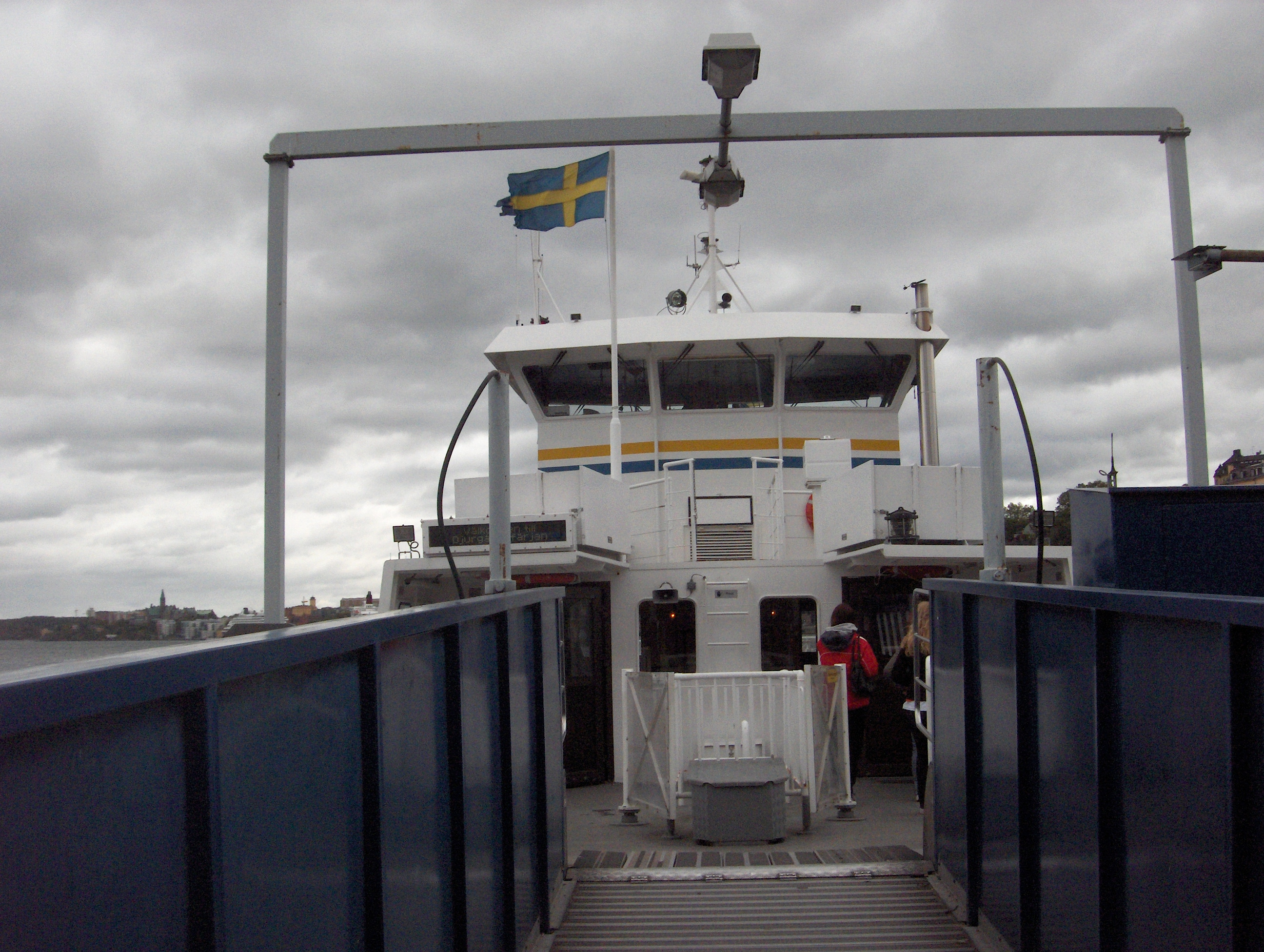 Djurgårdsfärjan summer 2007